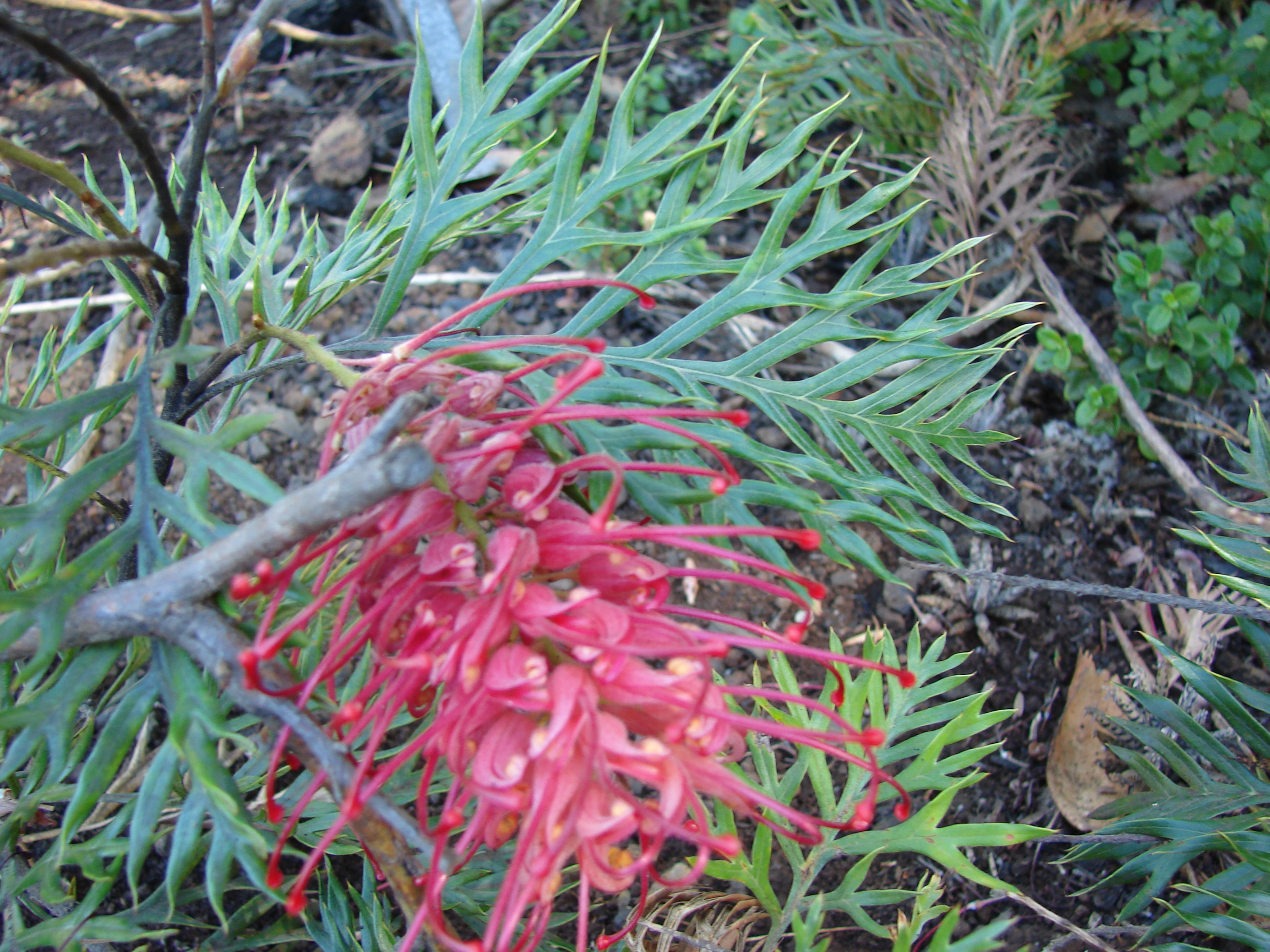 Grevillea banksii x bipinnatifida (cv Robyn Gordon flowers and leaves). Location: Maui, Enchanting Floral Gardens of Kula